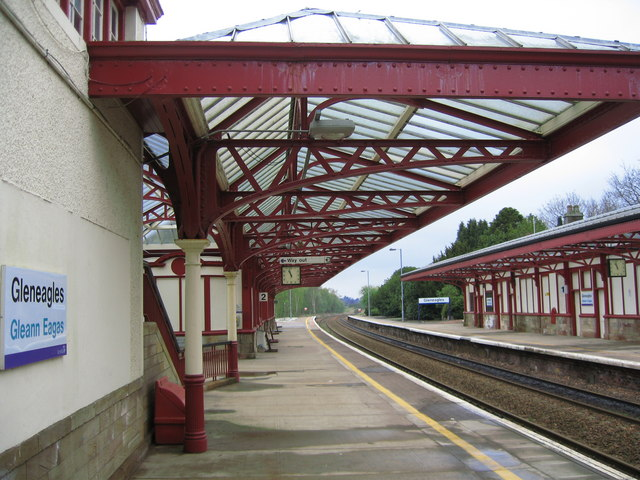 Gleneagles railway station, Perth and Kinross, Scotland